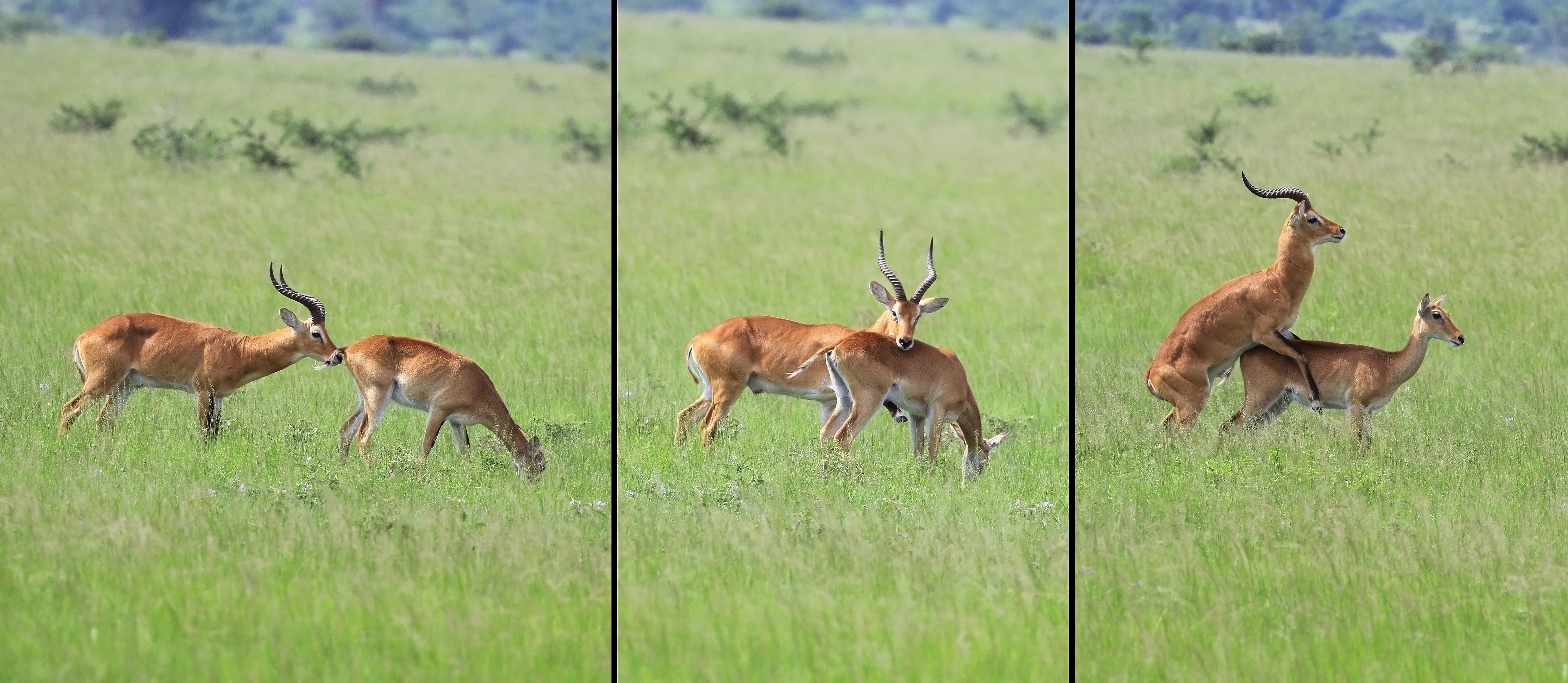 Ugandan kobs (Kobus kob thomasi) mating ritual composite, Queen Elizabeth National Park, Uganda